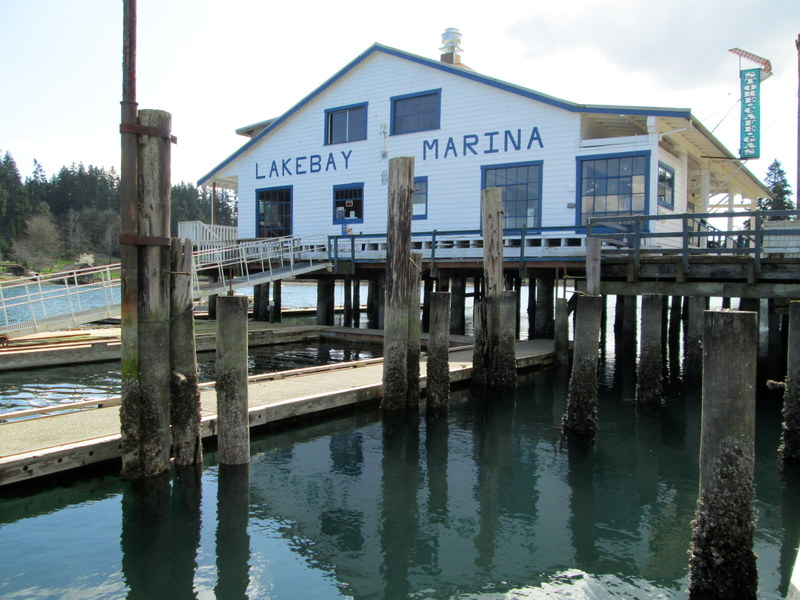 Lakebay Marina near Penrose Point State Park, Kitsap Peninsula, Washington State